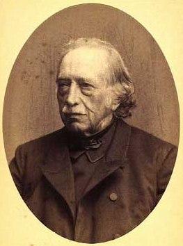 Hans Rasmussen Carlsen(-Lange) (1810-1887), Danish Interior Minister, MP